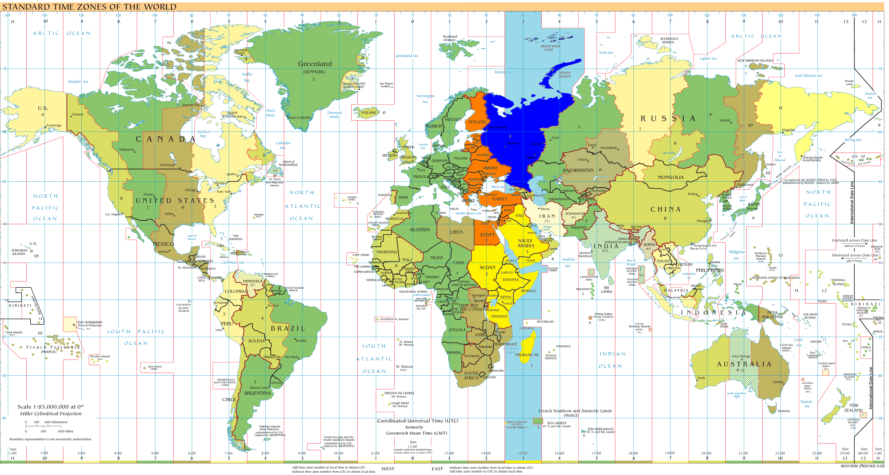 UTC+3 and process 2010 (Russia)